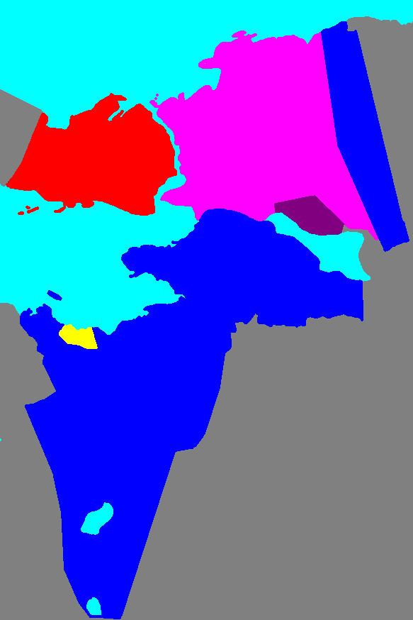 Tampere borders 1877–1929. (Sources:[1] & Iltanen, Jussi, 2004, Urbes Finlandiae, Suomen kaupunkien historiallinen kartasto, Genimap Oy, ISBN 951-593-915-1)